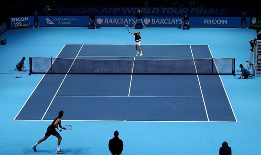 Del Potro vs. Davydenko in the end of the match of Teachers 2009 in London.